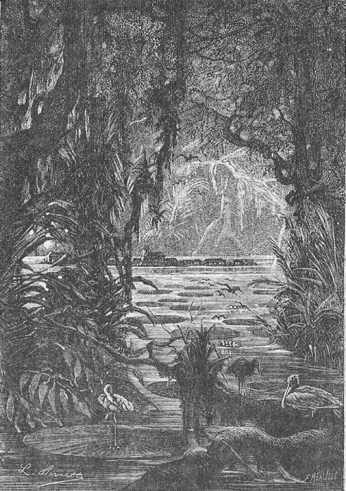 An illustration from Jules Verne's novel "Eight Hundred Leagues on the Amazon".